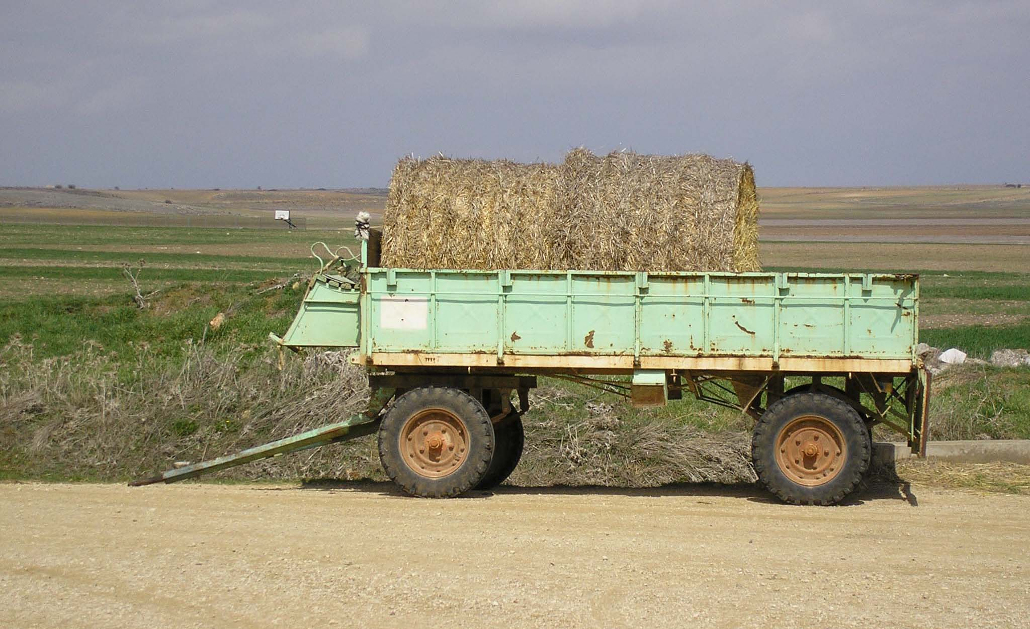 Old tractor country trailer wagon in Soria (Spain)